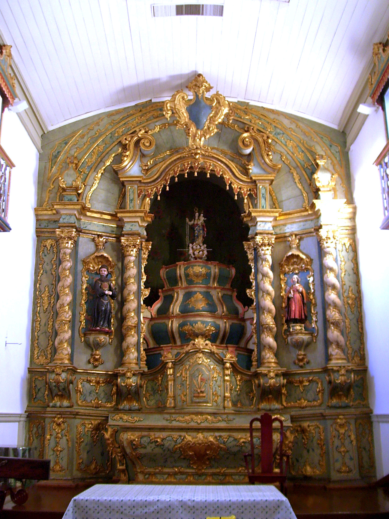 Principal altar of the Church of Our Lady of the Rosary and the Saint Benedict's Chapel, with the images of the Our Lady of the Rosary (in the central niche), Saint Francis of Paola (at left) and Saint Joseph (at right), Cuiabá, Mato Grosso, Brazil.